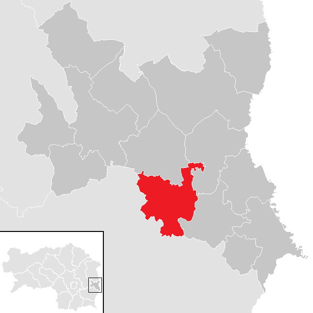 District Fürstenfeld, Styria